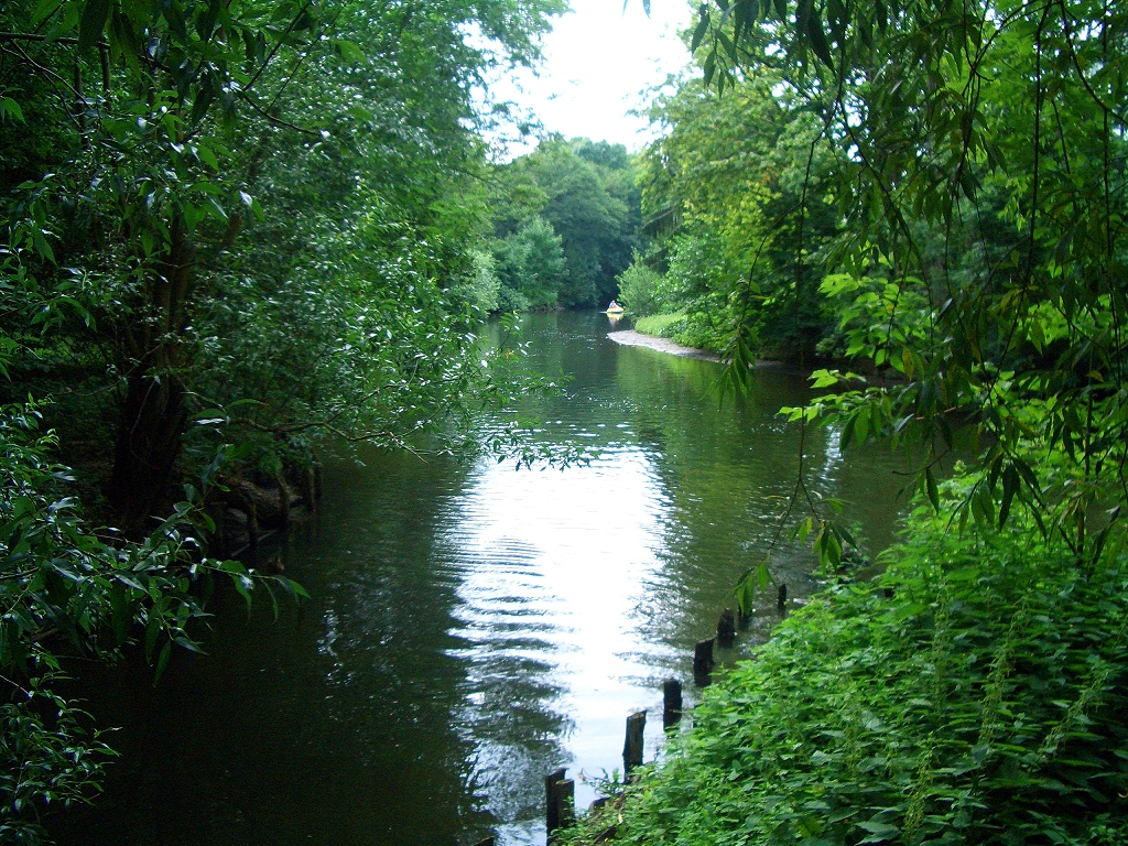 End of Burgmuehlengraben at Braunschweig, Bammelsburger Straße